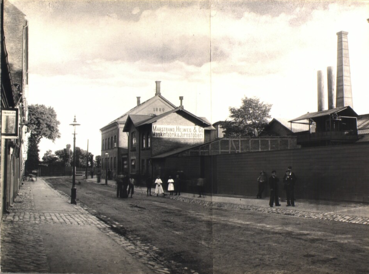 Marstrand & Helweg's Maskinfabrik & Jernstøberi at Vester Fælledvej32 in Copenhagen, Denmark